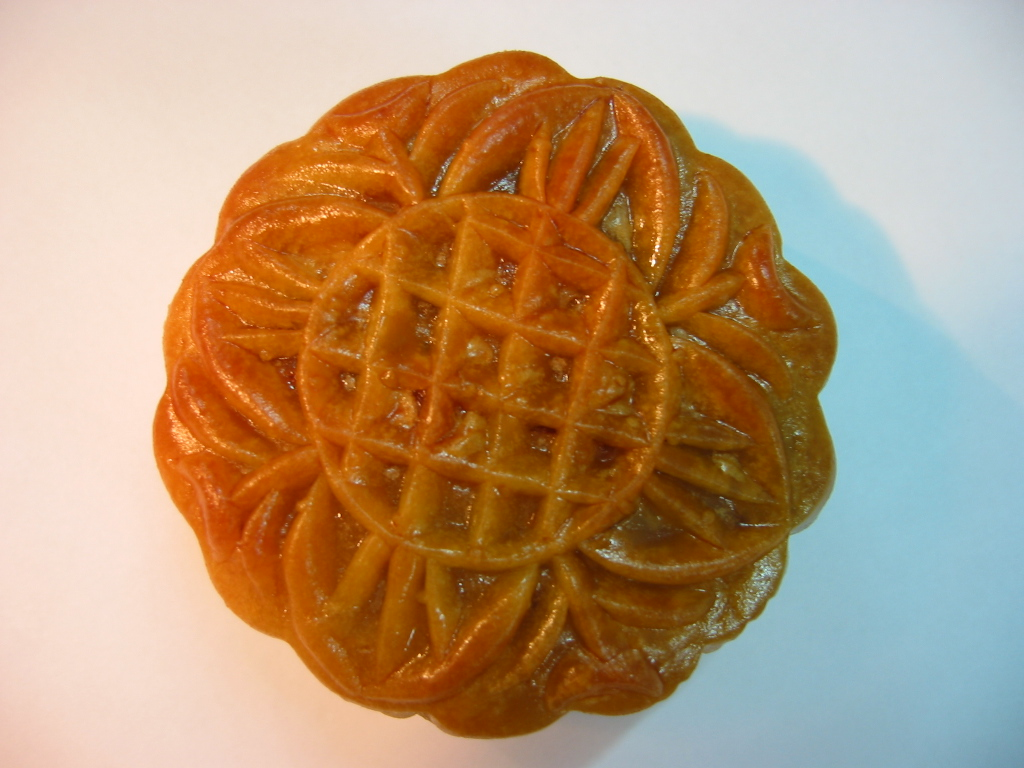 A grilled moon cake in Vietnam.